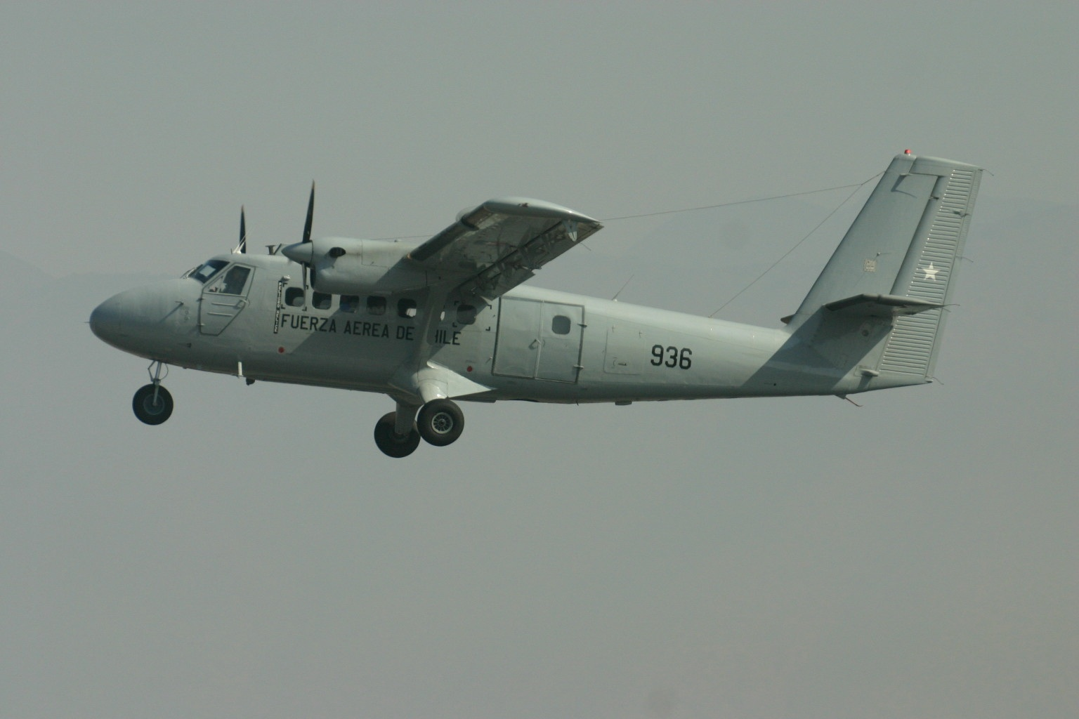 At Santiago